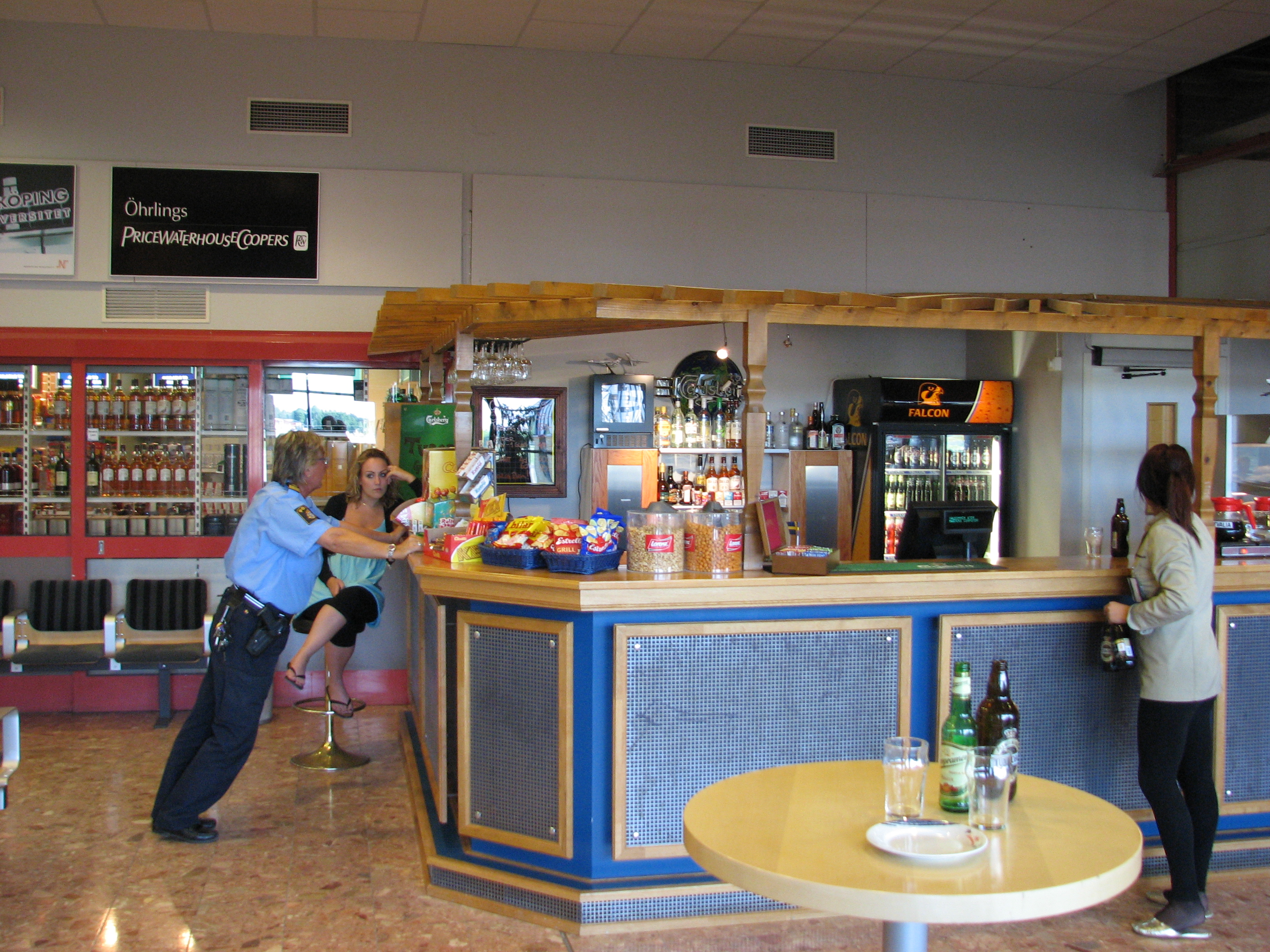 The bar at Norrköping Airport. Photograph taken by me on my way to BoundCon in Munich. I was only at the airport for about fifteen minutes.